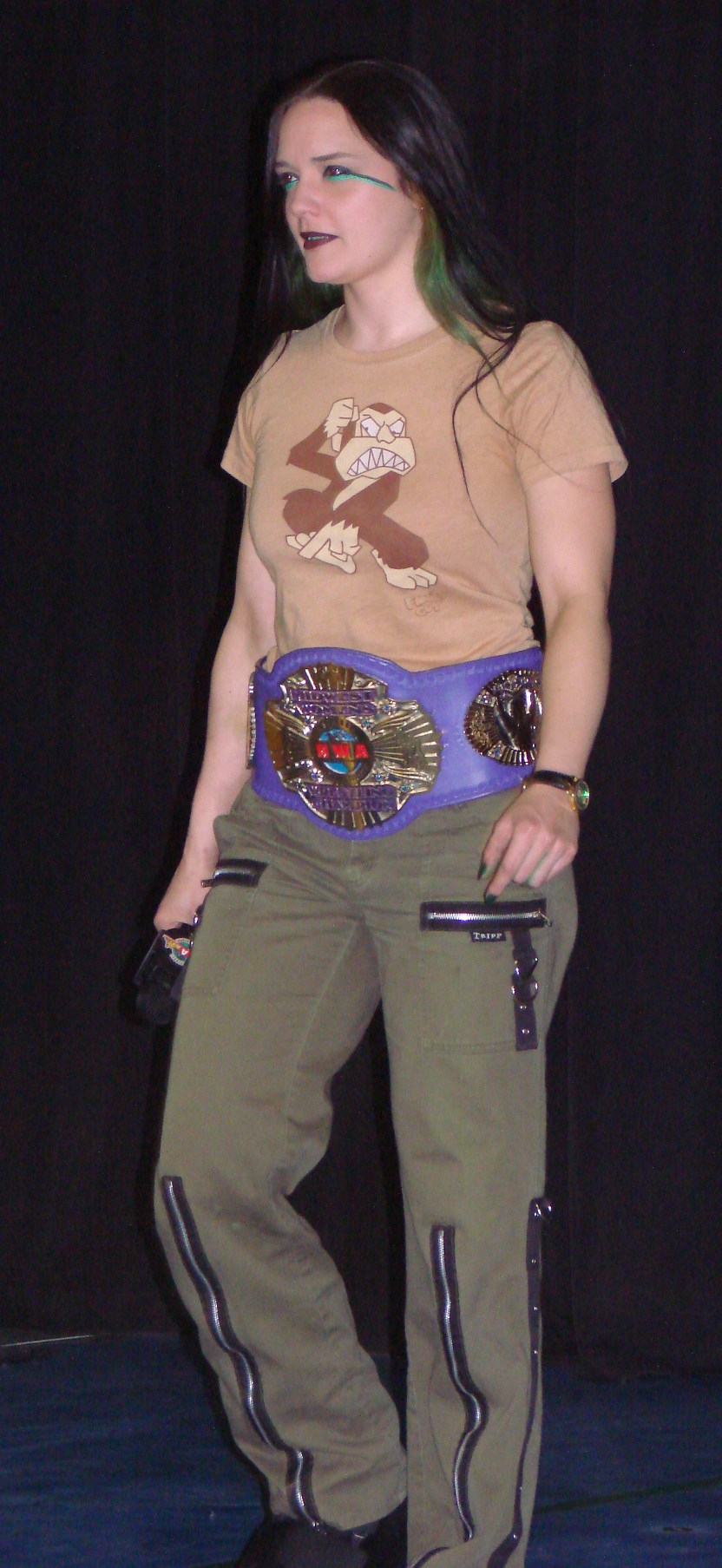 MsChif at an NWA Midwest event. Streamwood, IL, September 22, 2007. Taken by me, rotated, cropped.